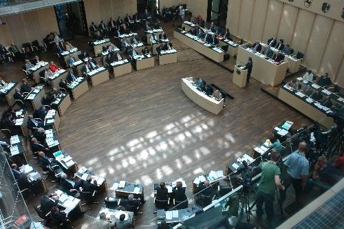 Official Photo of the Bundesrat Chamber